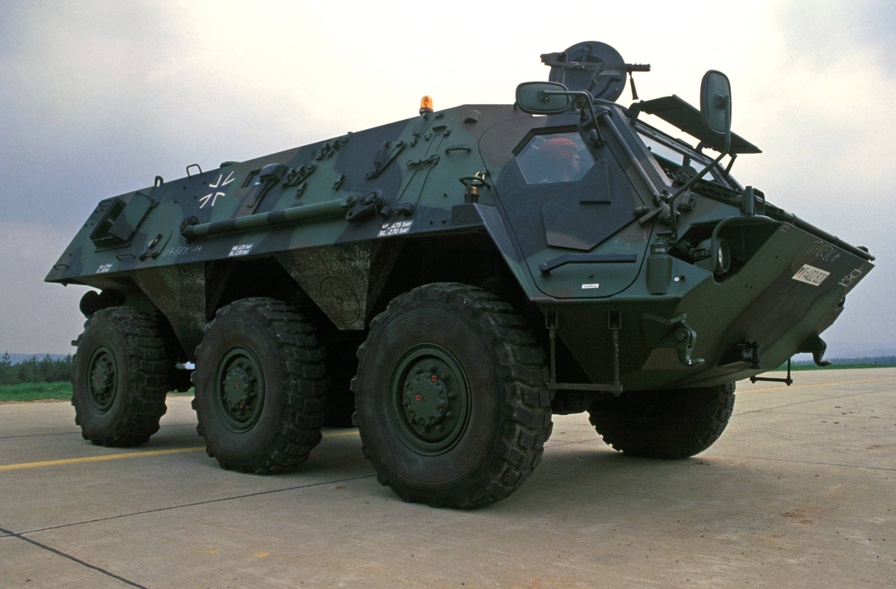 A right front view of a Fuchs Transporterpanzer 1, a German nuclear, biological and chemical (NBC) reconnaissance vehicle being tested during Exercise SALTY DEMO'85. SALTY DEMO'85 is an air base survivability exercise evaluating passive and active defenses, aircraft operation and generation, and base recovery systems.